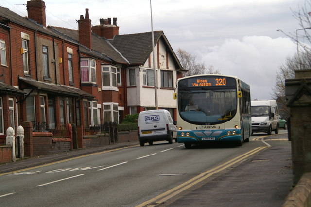 Arriva North West and Wales 2685 (CX58 EVG), a VDL SB200/Wright Pulsar, in Wigan, on route 320. It is pictured outside Ince Cemetery, on Warrington Road, in its first week of service.